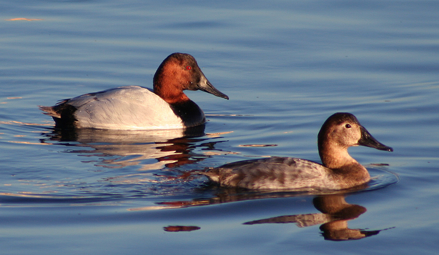 Canvasback pair (Aythya valisineria) found at Lake Merritt in Oakland, California.